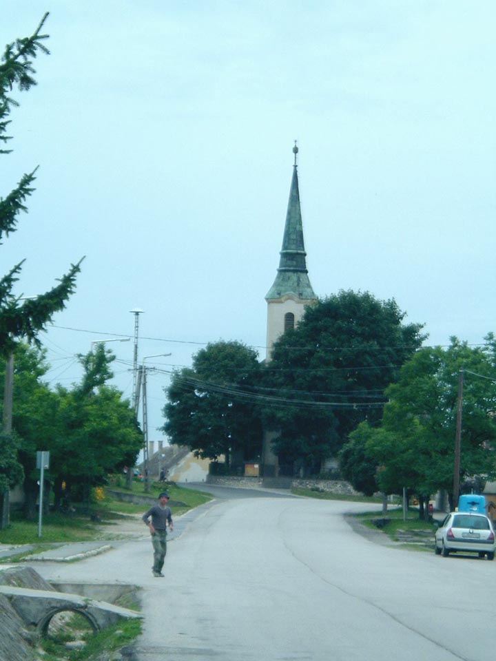 The church of Bakonyszentkirály, Hungary